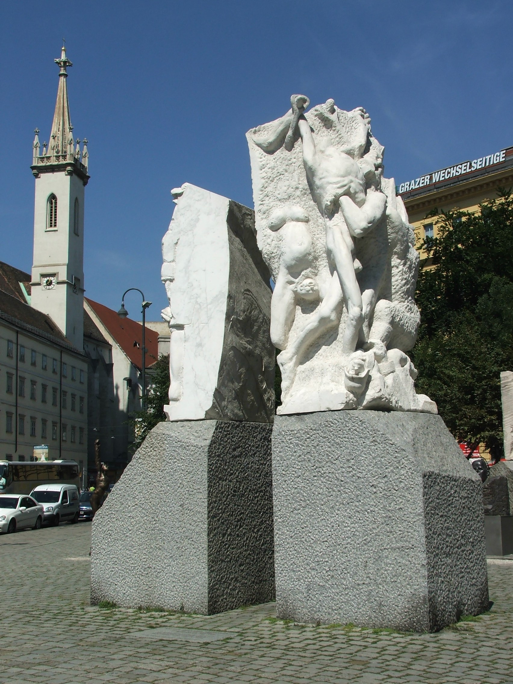 Monument Against War and Faschism by Alfred Hrdlicka.